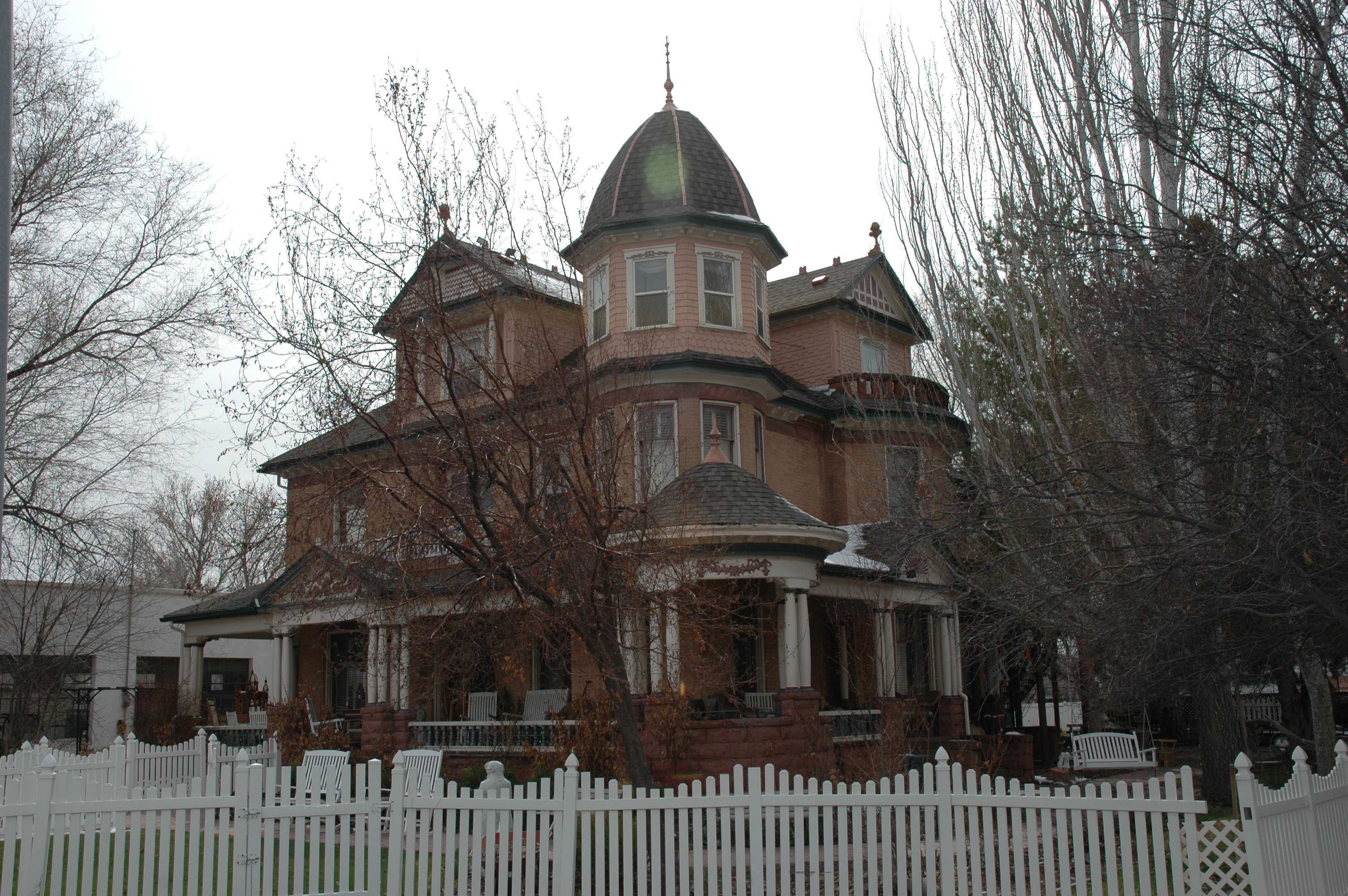 The George Carter Whitmore Mansion, a historic home in Nephi, Utah, United States.